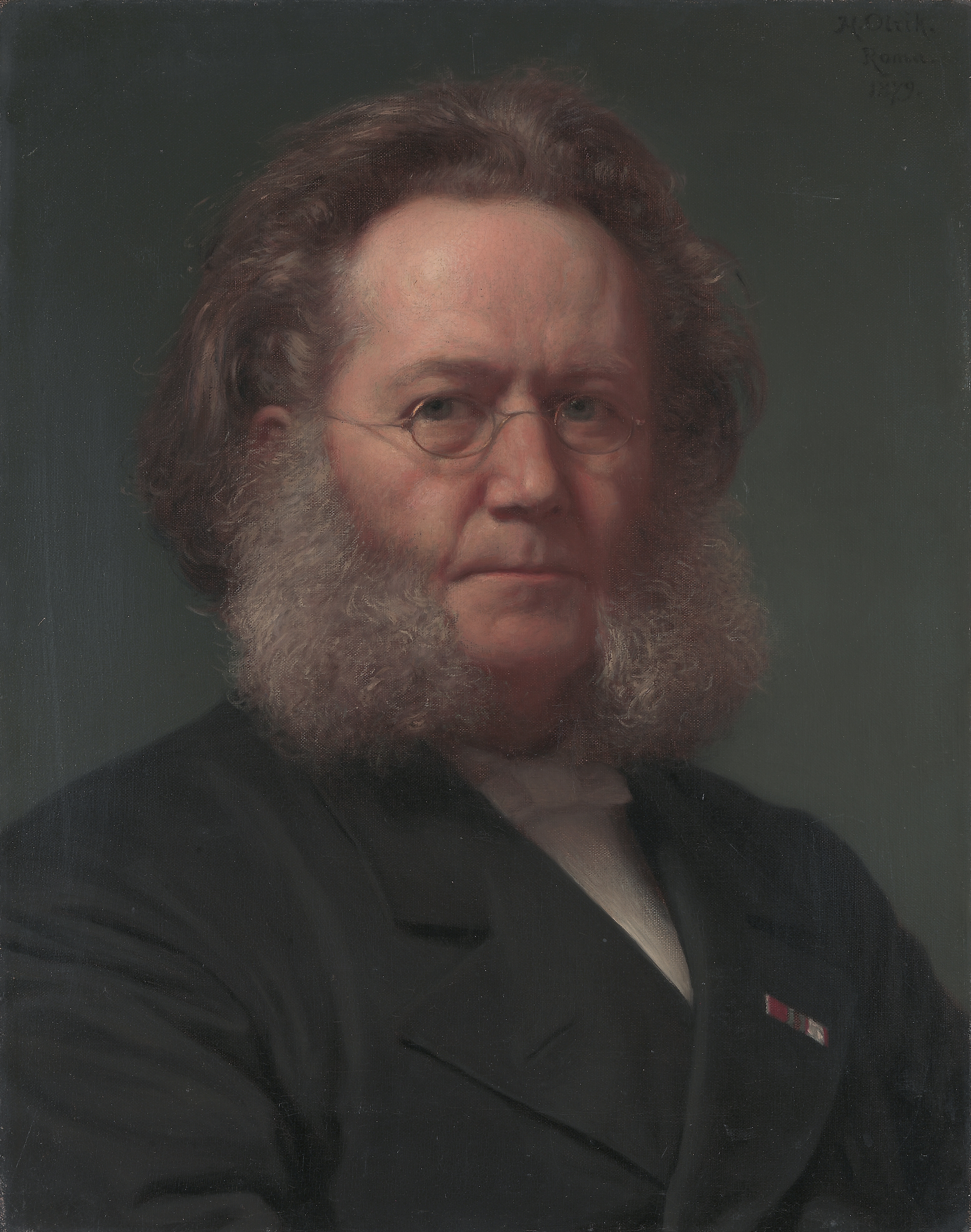 Henrik Ibsen oil on canvas 55 x 43 cm signed t.r: H. Olrik / Roma / 1879